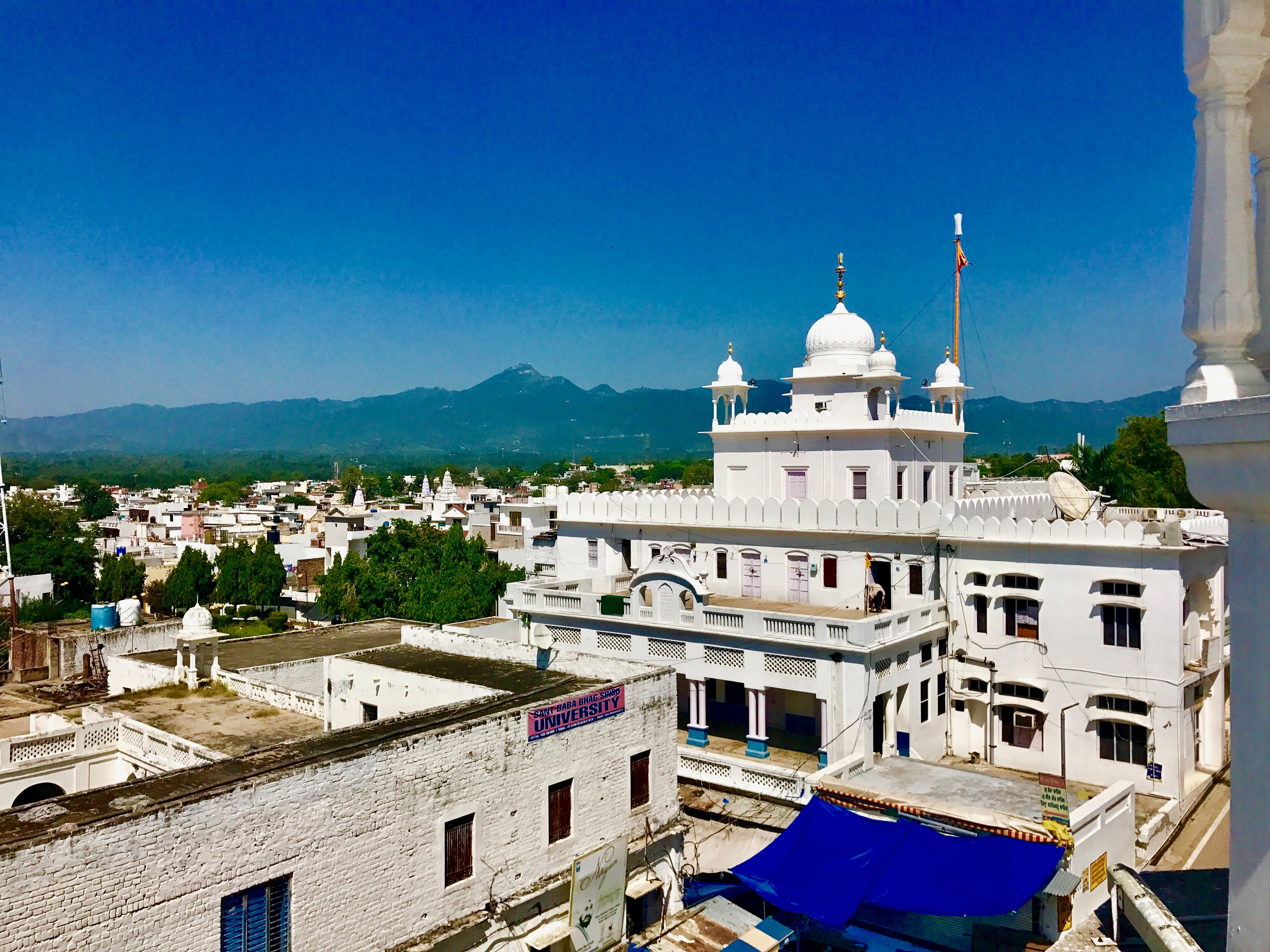 Takht Sri Keshgarh Sahib also known as Anandpur Sahib is the historic site in Sikhism where Khalsa was founded by Guru Gobind Singh. It is located near Himalayan foothills near the river Satluj. The site is second only to Amritsar, the city of Golden Temple in the Sikh tradition. Anandpur Sahib was founded in the year 1665 by the ninth Sikh Guru, Tegh Bahadur. A small town is the site of major annual gathering of Sikhs for Hola Mohalla festival every year in spring when other parts of India are celebrating Holi. It is a festive gathering with a display of martial arts, fairs and gaiety.